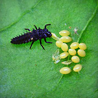 Second stage larva of Harmonia axyridis eating eggs of Coccinellidae sp.